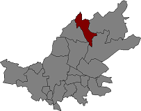 Location of el Pont d'Armentera in Alt Camp